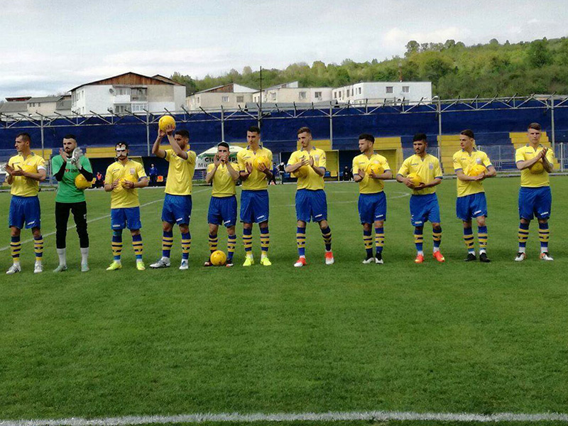 Flacara Moreni in 2017